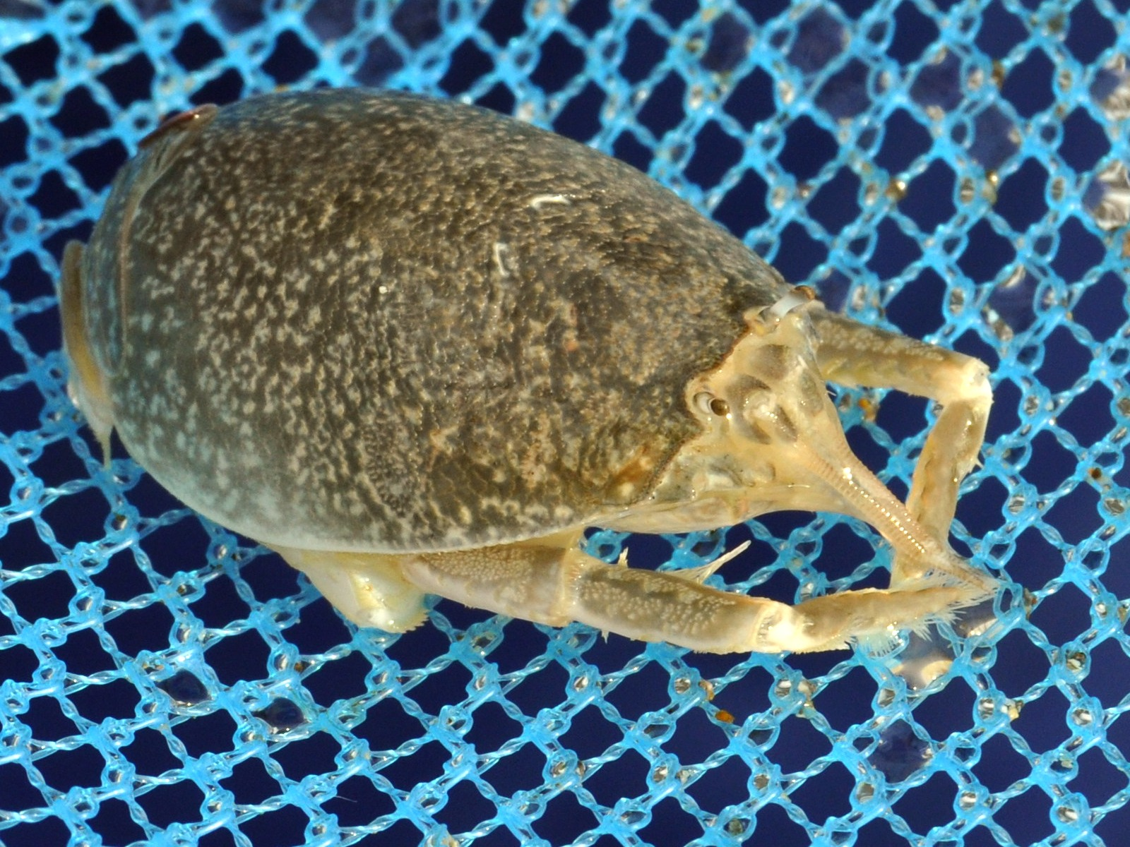 Hippa adactyla; CL 22mm. Palabuhanratu, West Java, Indonesia.